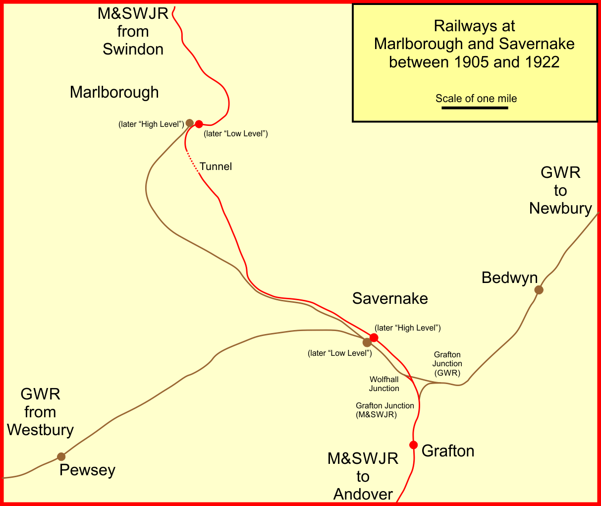 Map of railways near Marlborough England in first decades of twentieth century